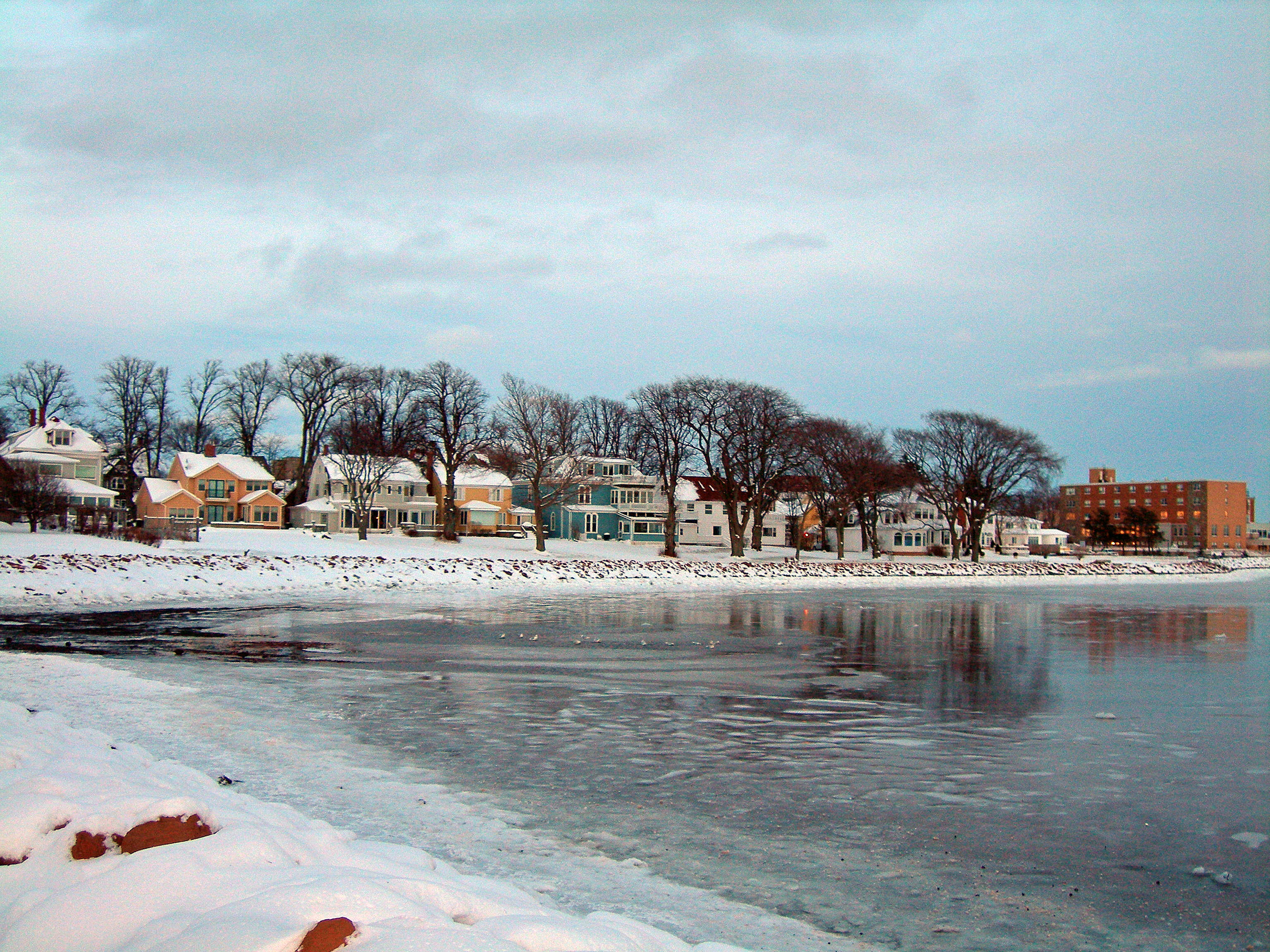 Charlottetown in the winter.